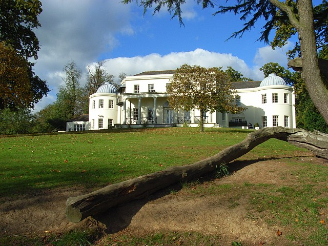 The Mansion House in Prospect Park, Reading, Berkshire, England. For more information see the Wikipedia article Prospect Park, Reading.